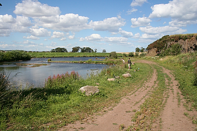 Gelly Loch. This little loch has formed in a disused quarry at Kinaldie.